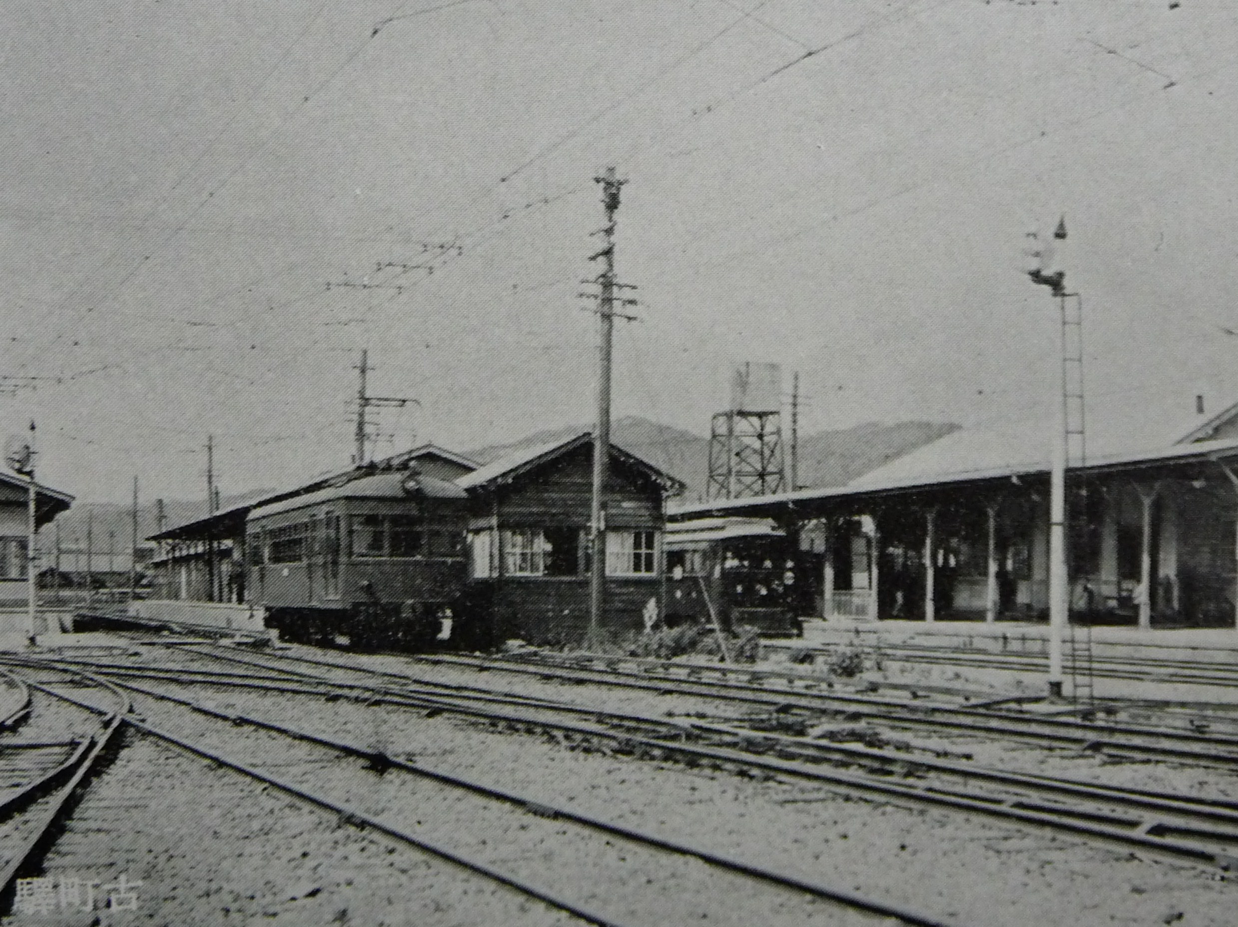 Iyo Railway Komachi Station